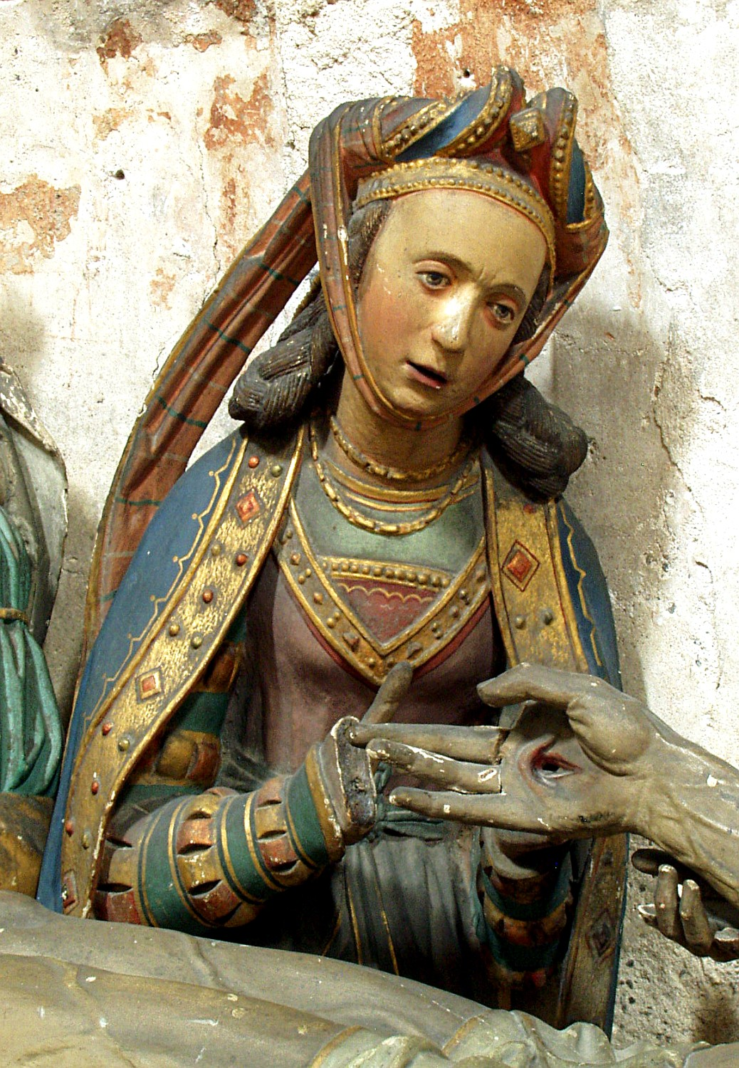 Maria Magdalene